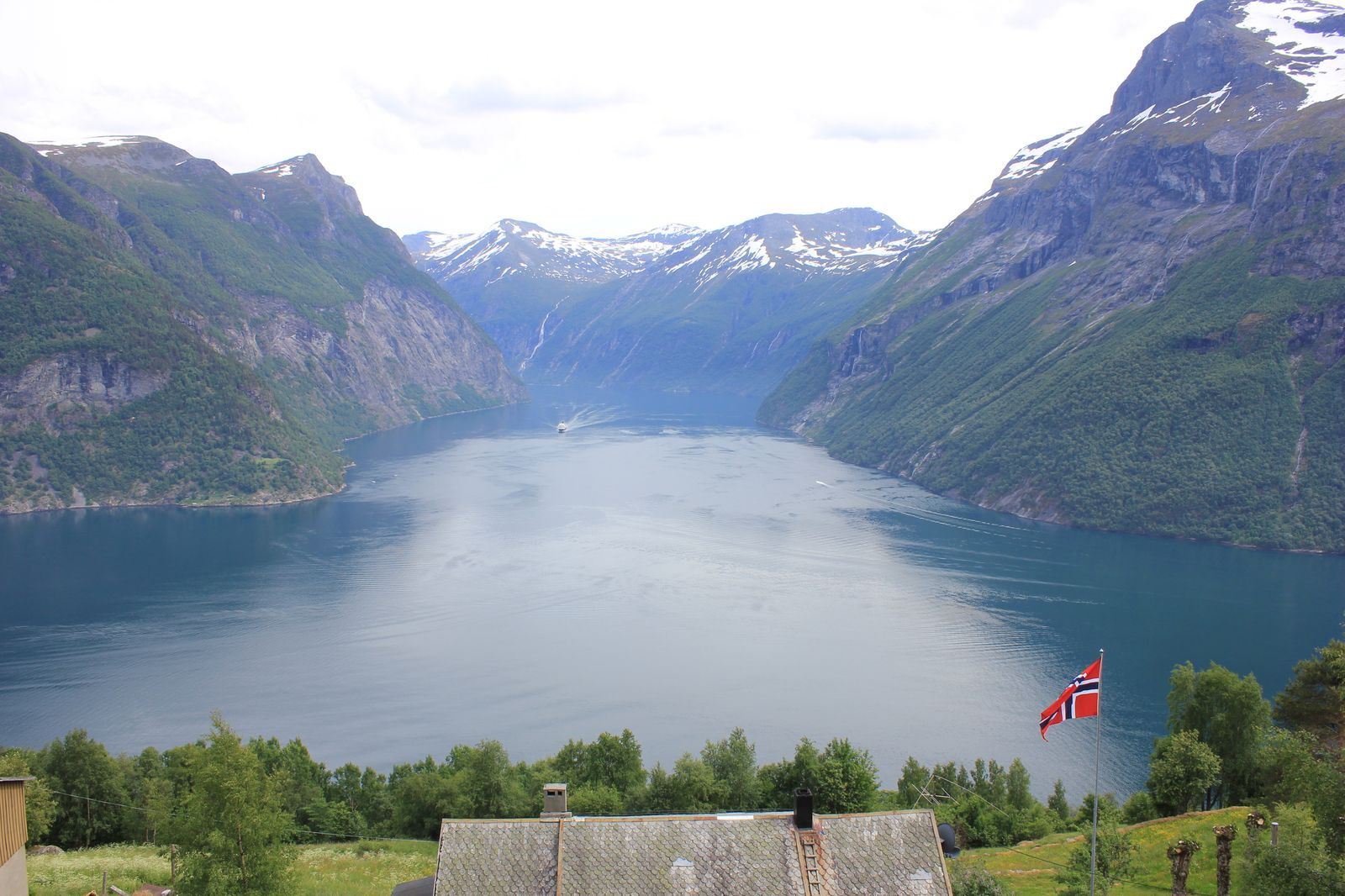 The view right into the Geirangerfjord